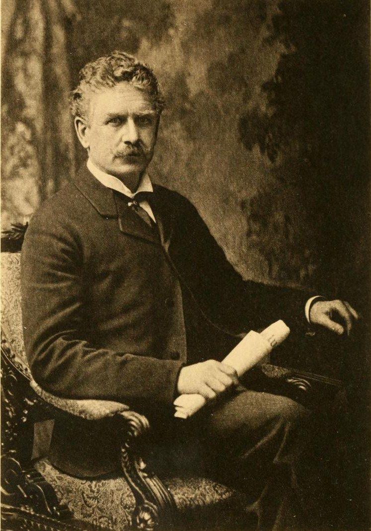 From "The Letters of Ambrose Bierce". Edited by Bertha Clark Pope. San Francisco, 1922.